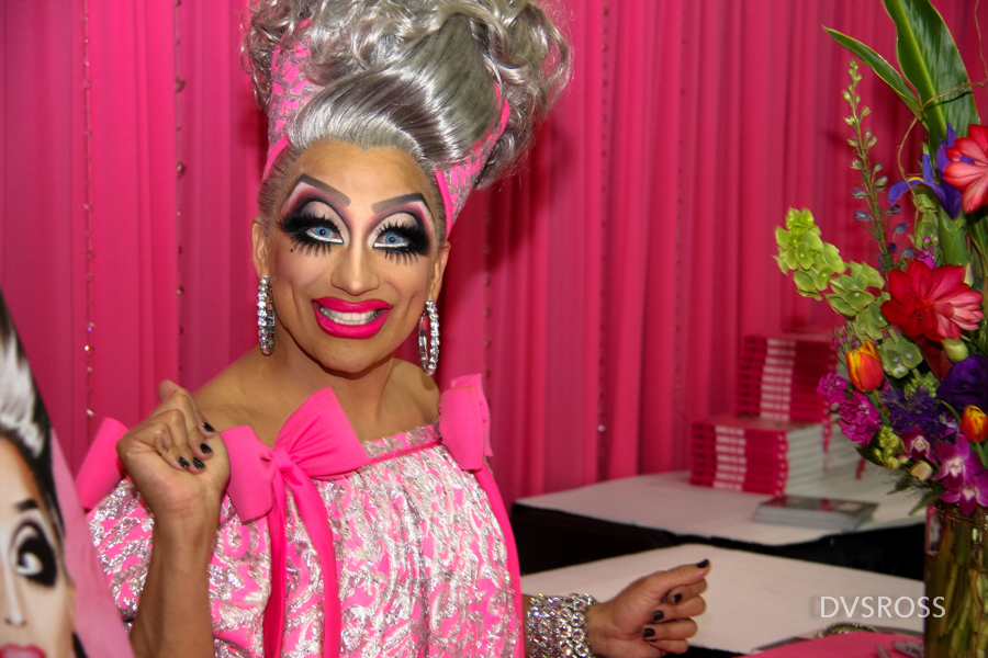 Bianca des Rio at RuPauls Dragcon 2018